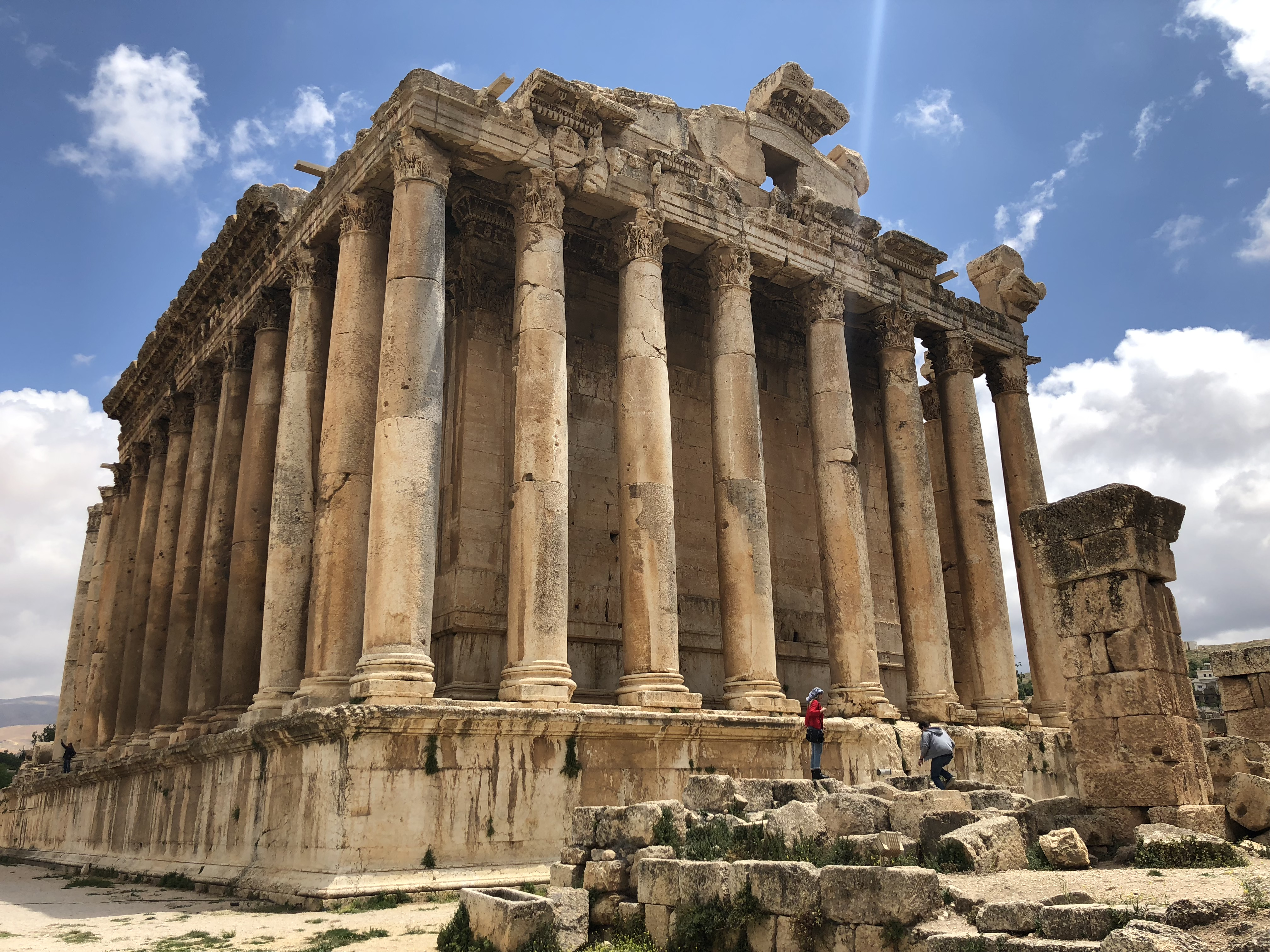 Temple of Bacchus in Baalbek as seen from the ground